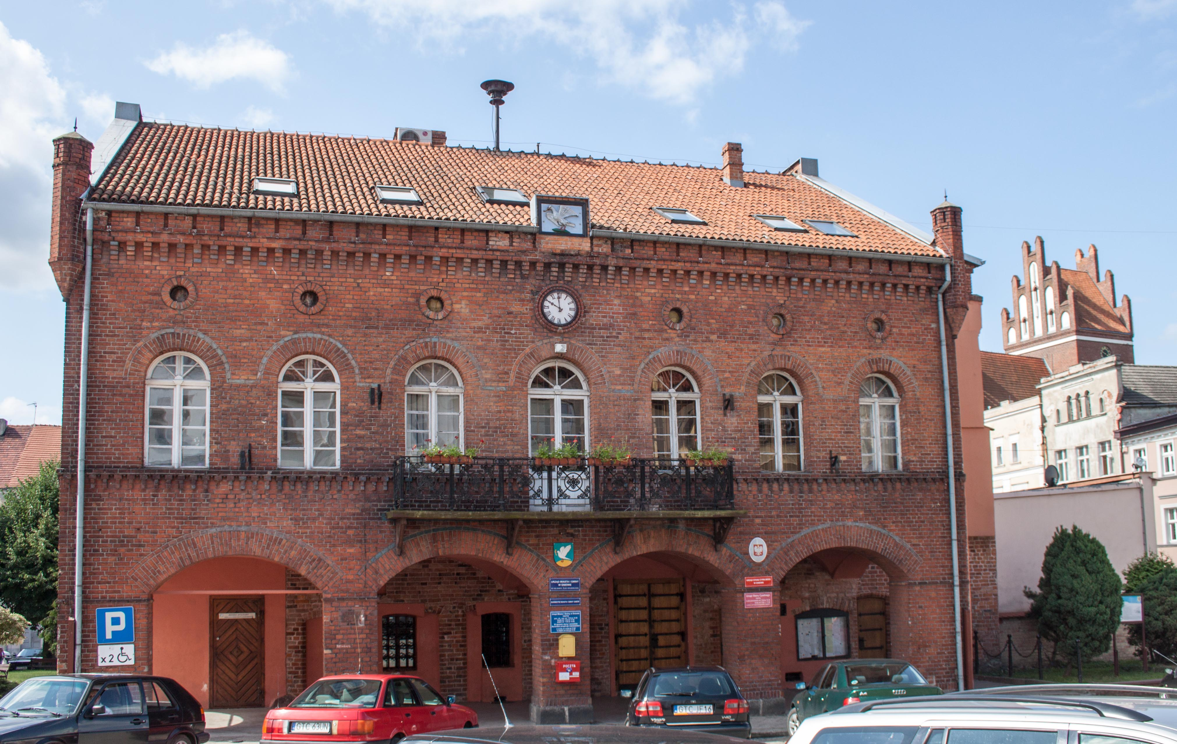 Municipal council in Gniew